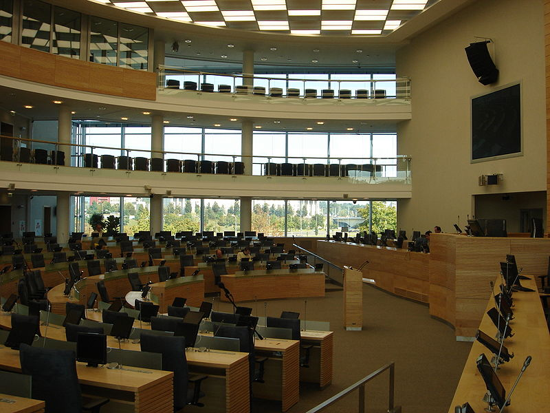 New Lithuanian Seimas Parliament Hall, opened in 2007